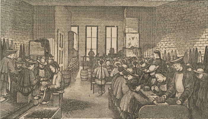 Illustrated San Francisco News